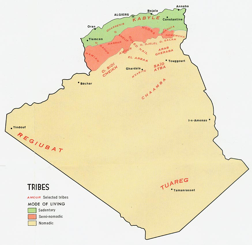 Map of tribes of Algeria